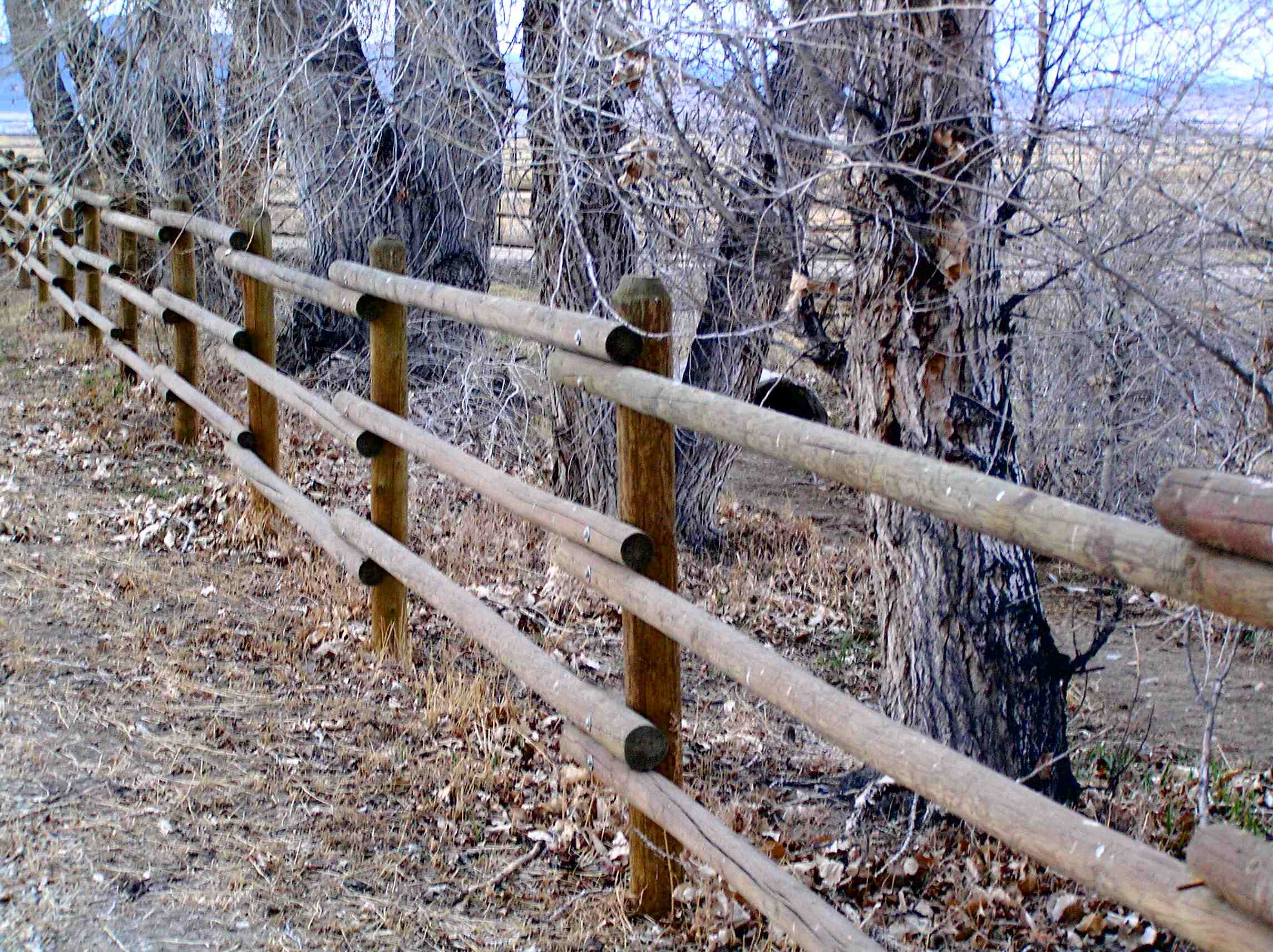 A sturdy and well-built post and rail fence